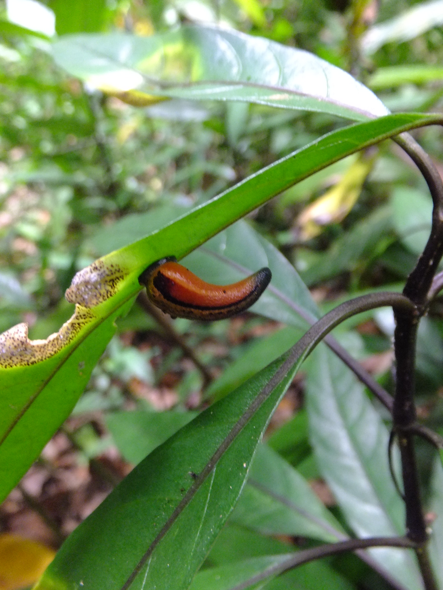 Tiger Leech hanging from a leaf in Borneo Malaysia